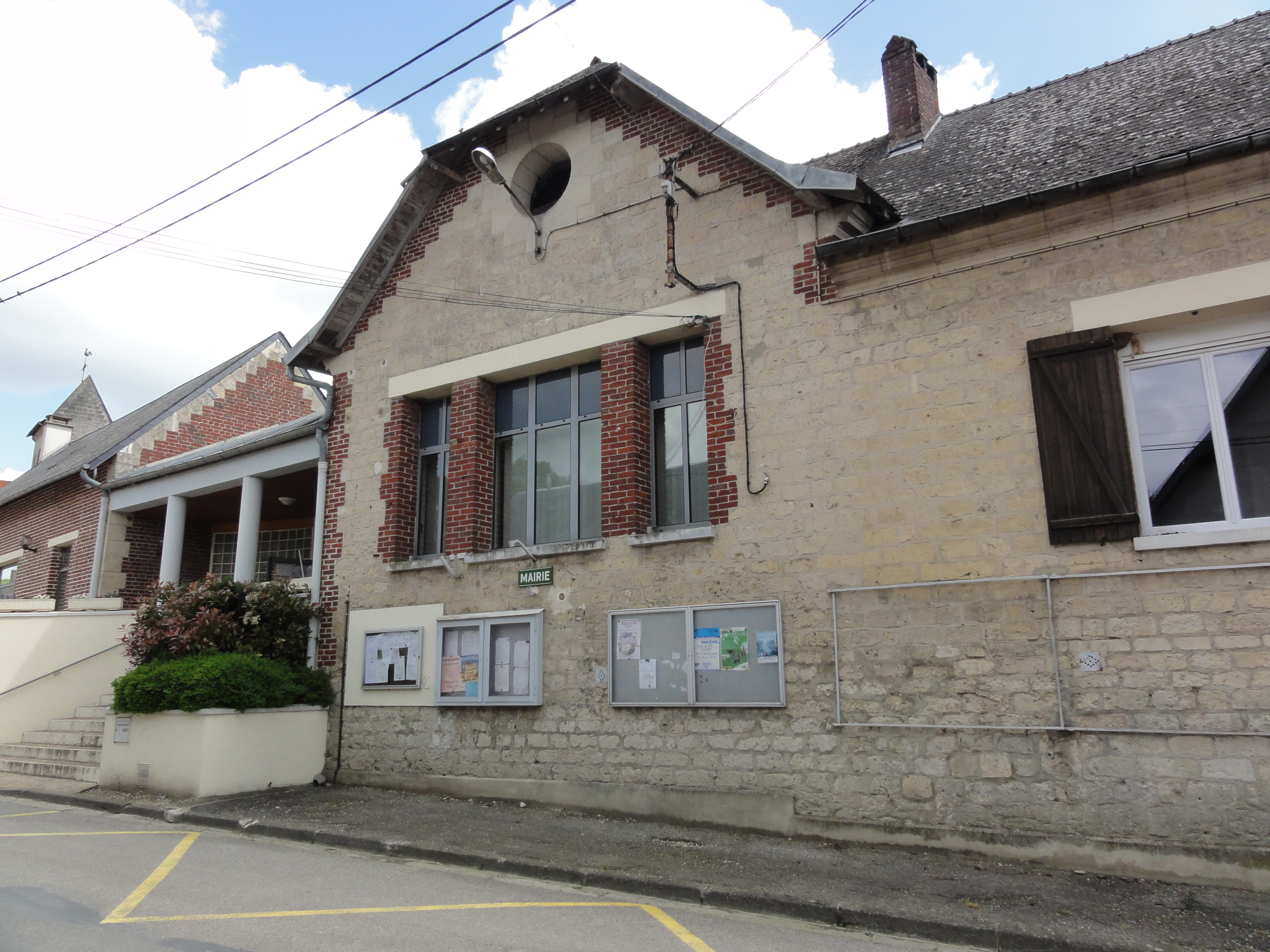 Faucoucourt (Aisne) mairie